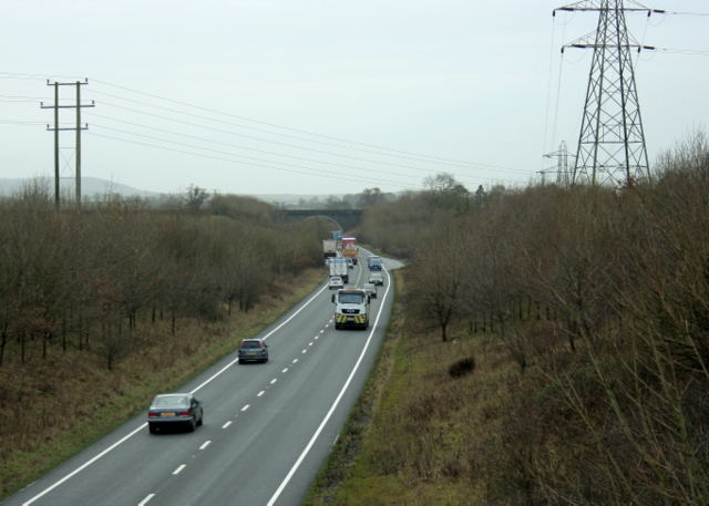 A361 Frome bypass looking south from Clink Road. The bridge in the distance carries the A3098. An interesting comparison with 107695 taken nearly 3 years previously with a wider angle lens.